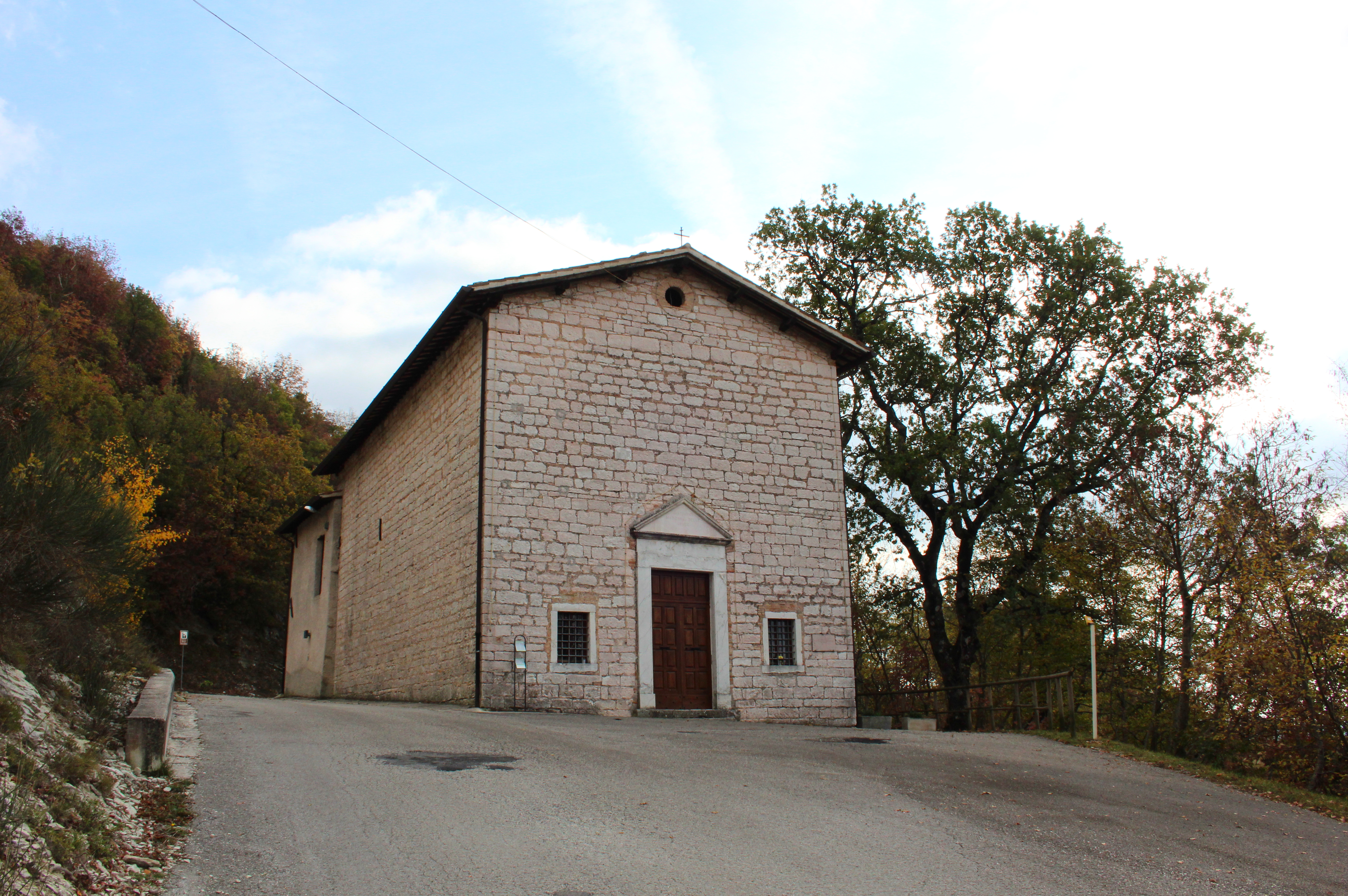 Church/Sanctuary Madonna delle Grazie, Costa San Savino, hamlet of Costacciaro, Province of Perugia, Umbria, Italy